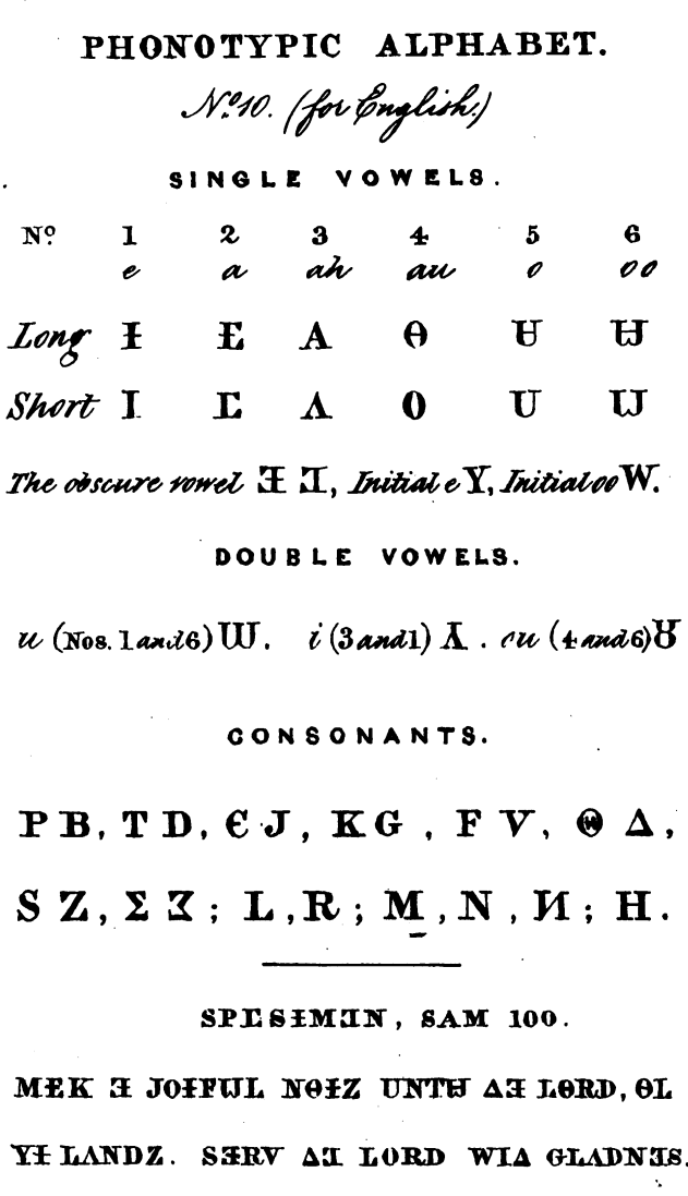 Chart of vowels and consonants symbols of the Phonotypic Alphabet from October 1843